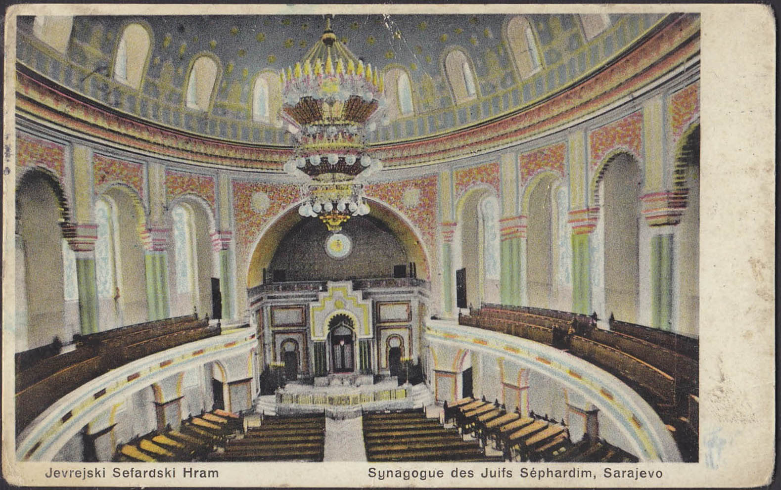 Postcard of synagogue of Sarajevo